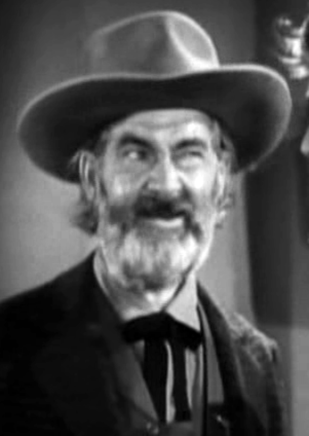 George "Gabby" Hayes in The Carson City Kid, 1940